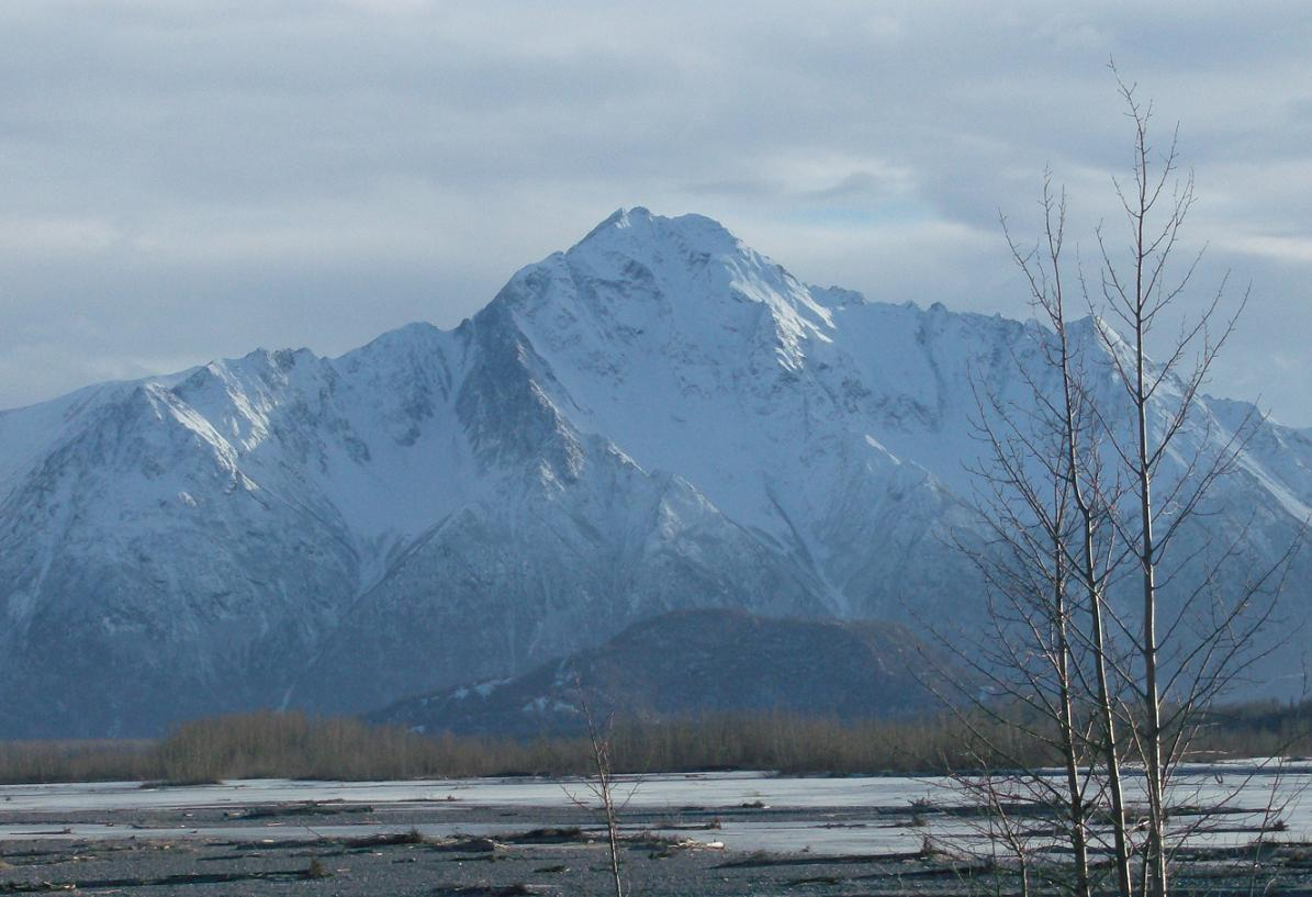 Pioneer Peak as viewed from the north near Palmer, Alaska. The Matanuska River and Bodenburg Butte can be seen.